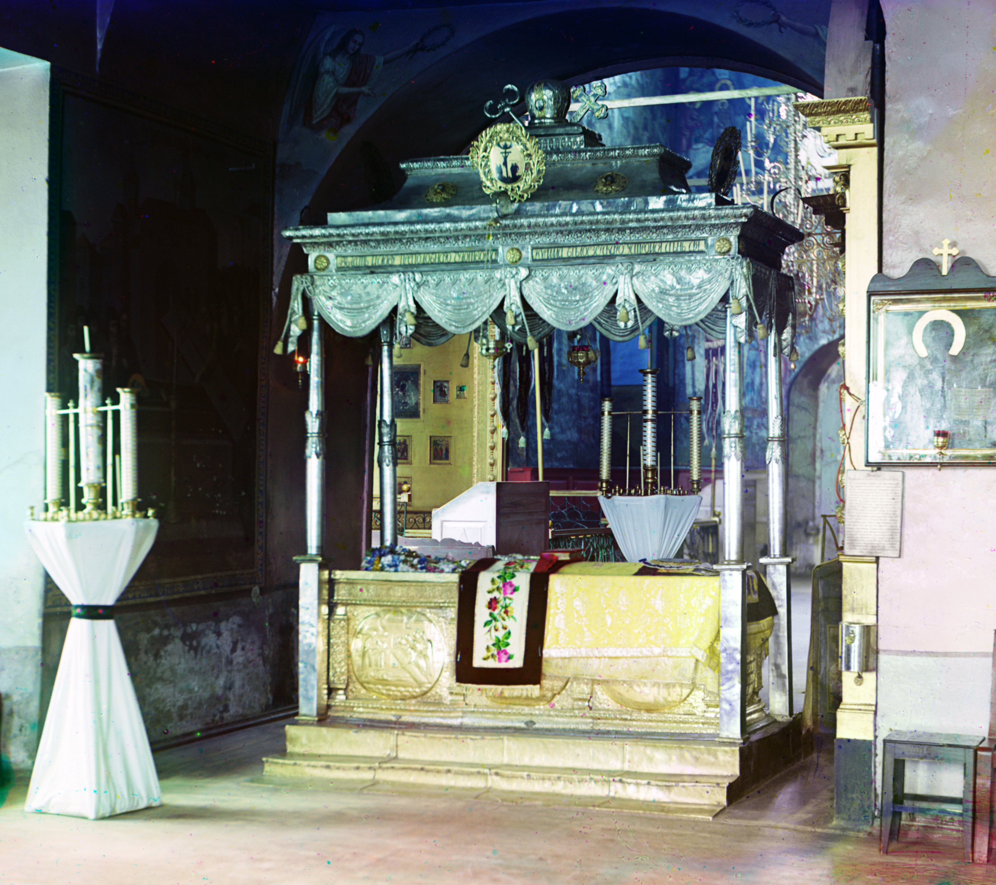 Sepulchre of the Venerable Kirill. (Kirillo-Belozerskii Monastery, Kirillov, Russian Empire)